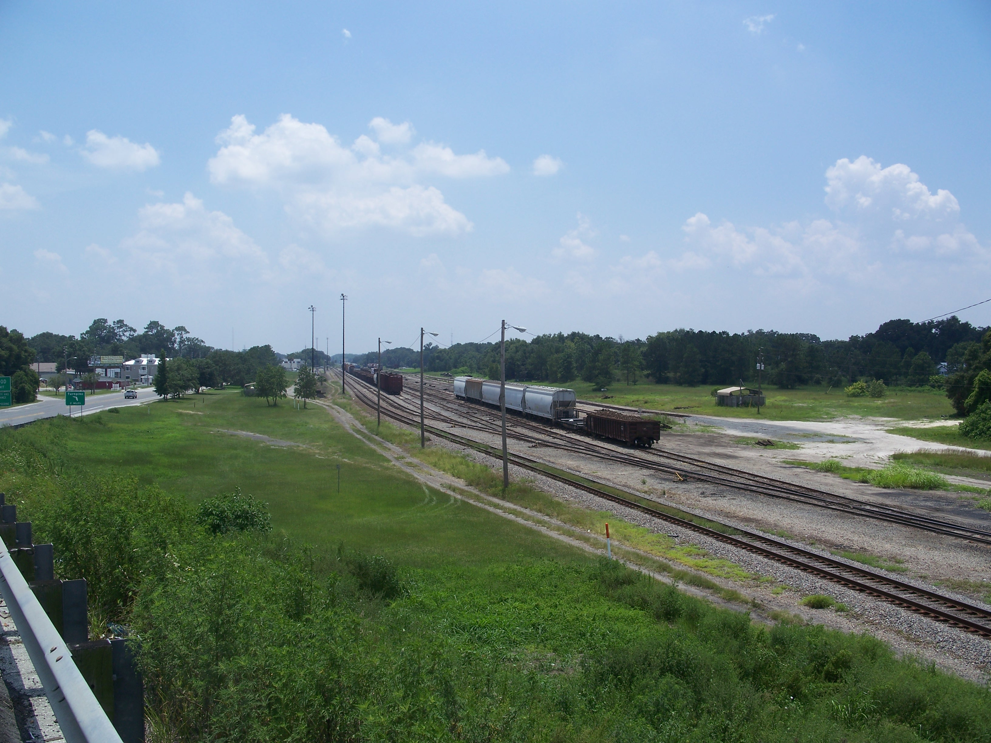 Wildwood, Florida: Rail tracks and railcars, looking south from the US 301 bridge.